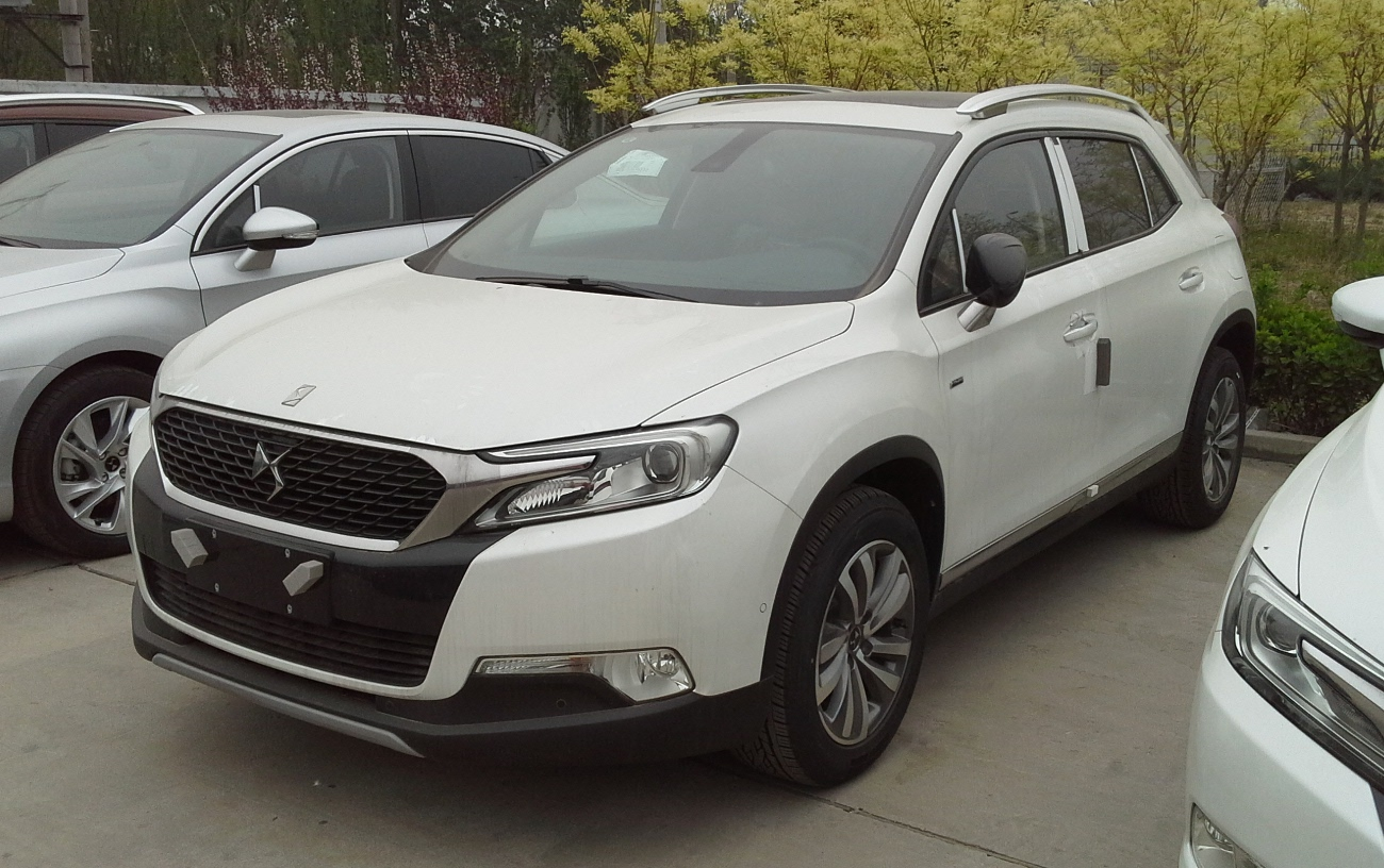 DS 6 photographed in Beijing, China.